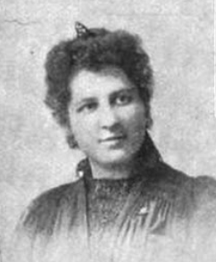 National Council of Women of the United States